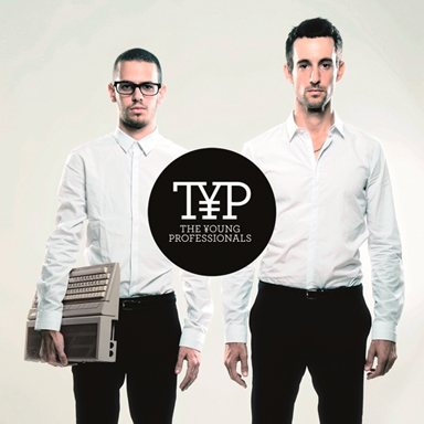 Official band photo of The Young Professionals (TYP). Featuring Johnny Goldstein (left) and Ivri Lider (right).